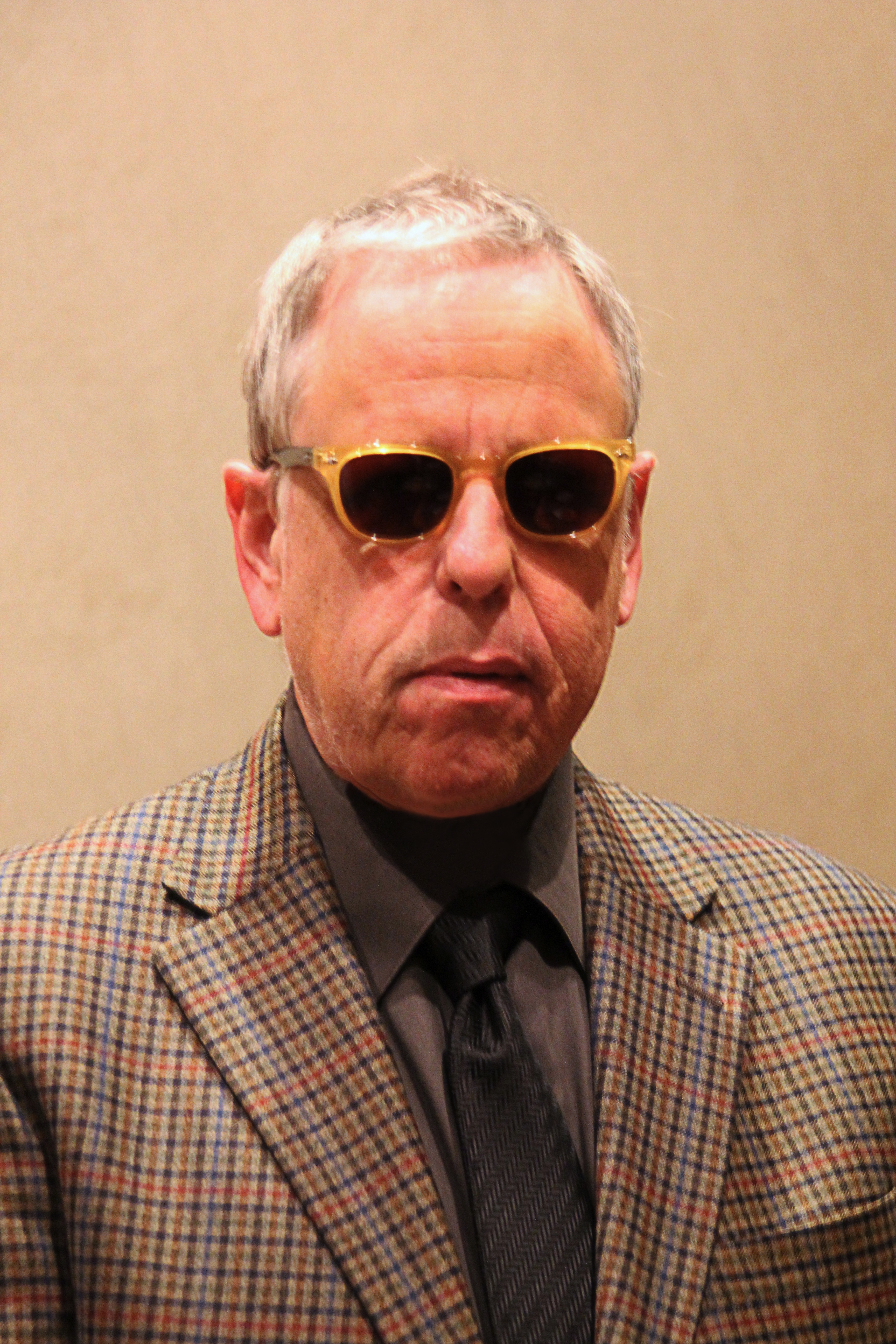 Kenny Werner backstage at the Blue note.